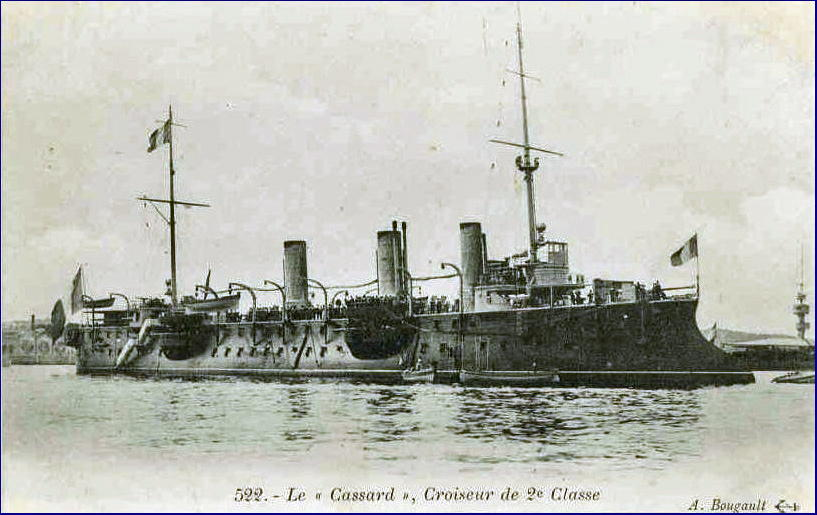 French protected cruiser Cassard (1896)